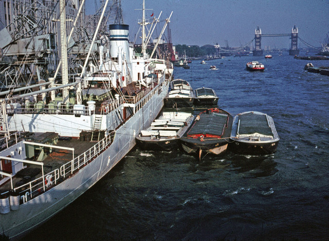 New Fresh Wharf c1970 Photo taken from London Bridge. The ship is probably discharging produce such as Tomatoes from the Canary Islands.